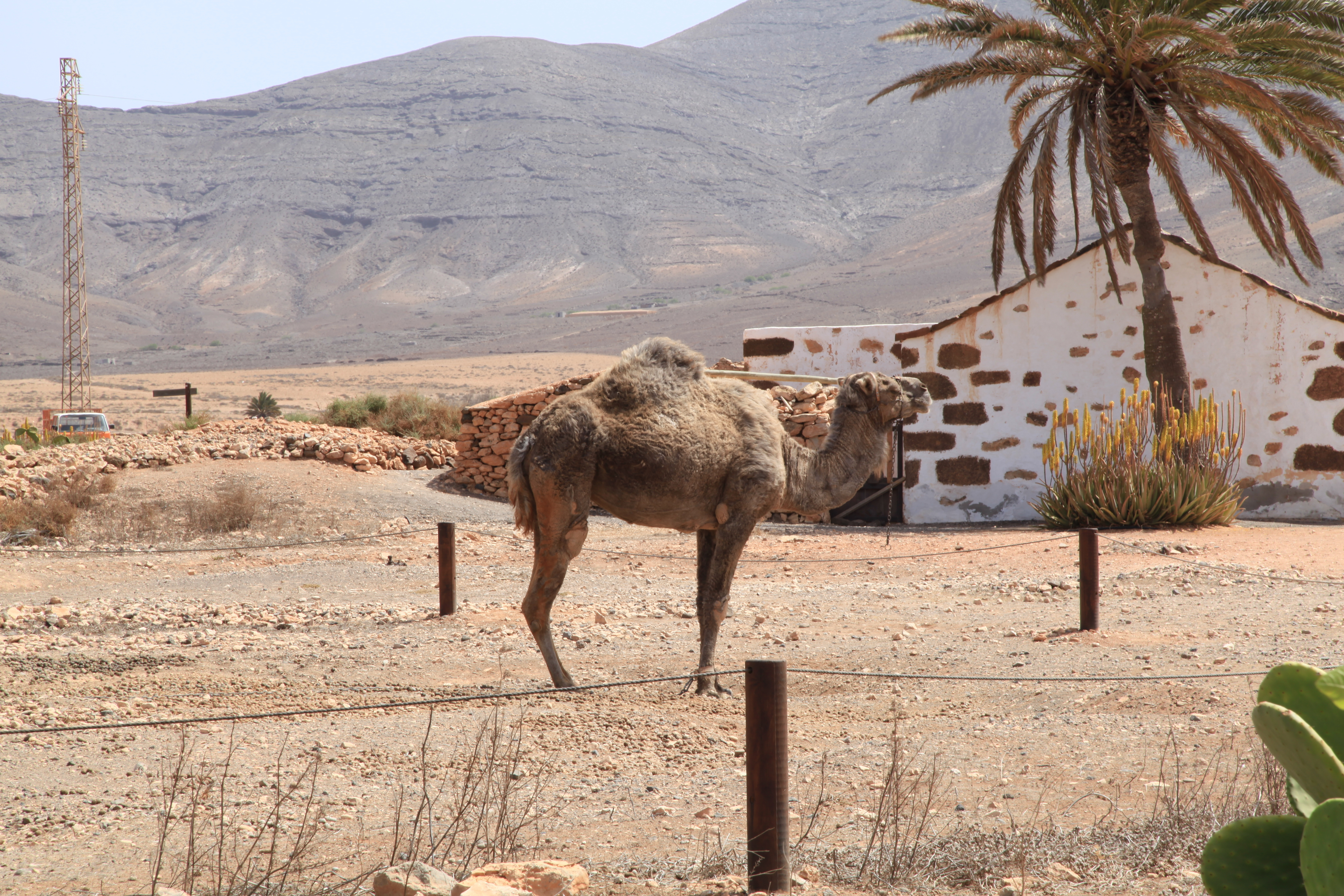 Dromedary in Ecomuseo La Alcogida at Aldea Tefia, FV-207 in Tefia, Puerto del Rosario, Fuerteventura, Canary Islands